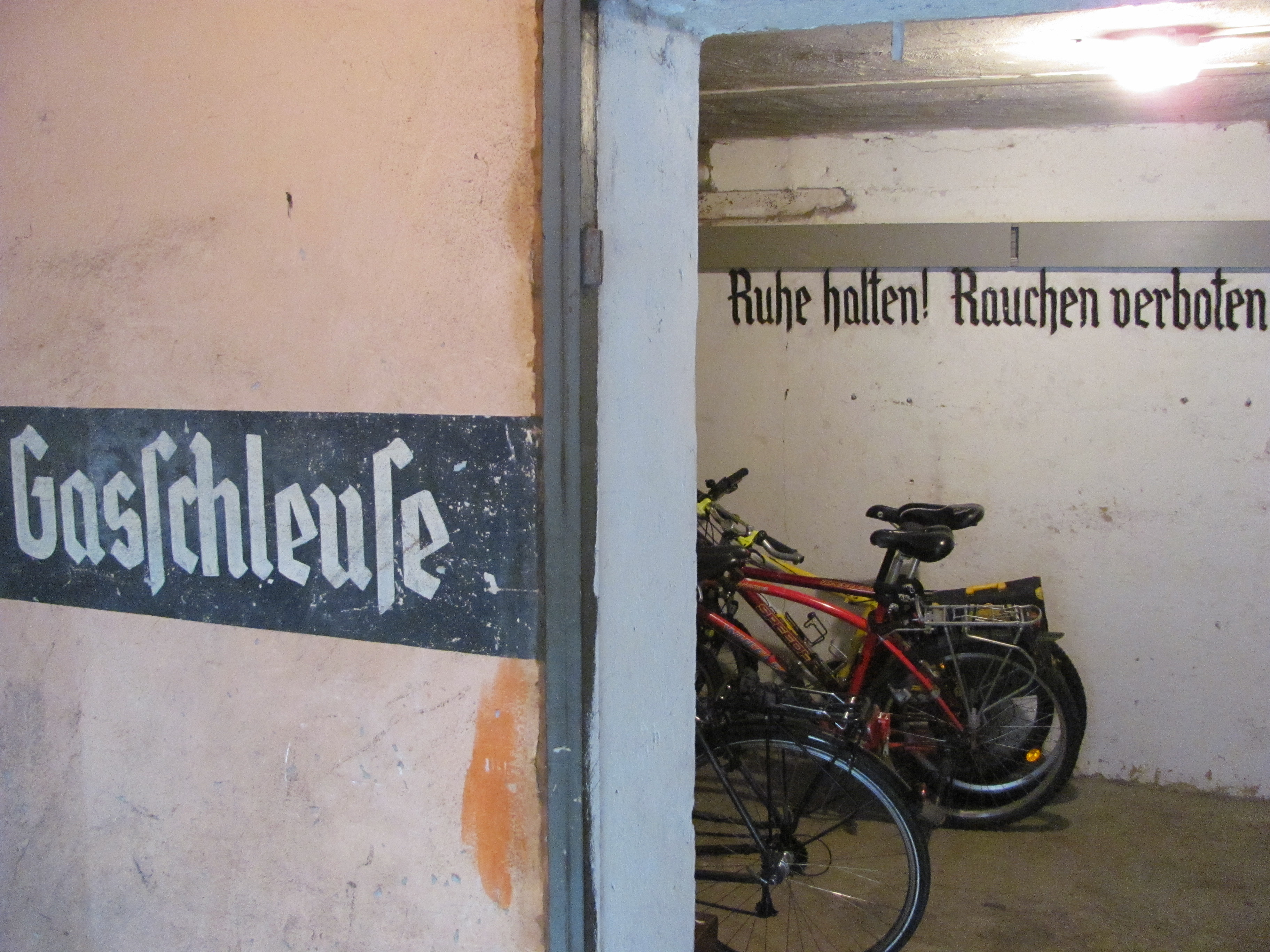 WW II air raid shelter, Marschnerstraße 5, Frankfurt, Germany